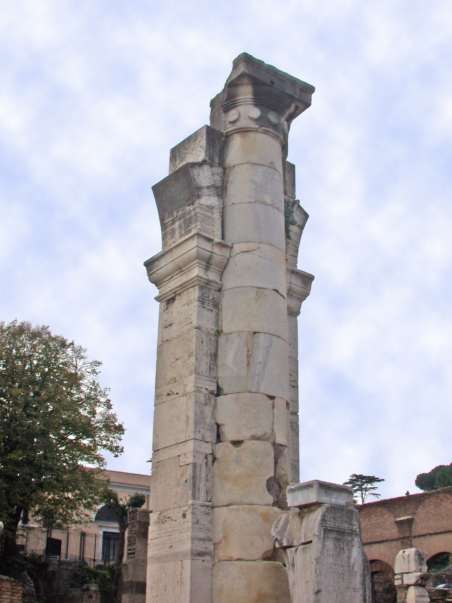 Rome, Roman Forum, Basilica Giulia: a pilaster of the ancient front. Personal photo (november 2005) by MM in it.wiki